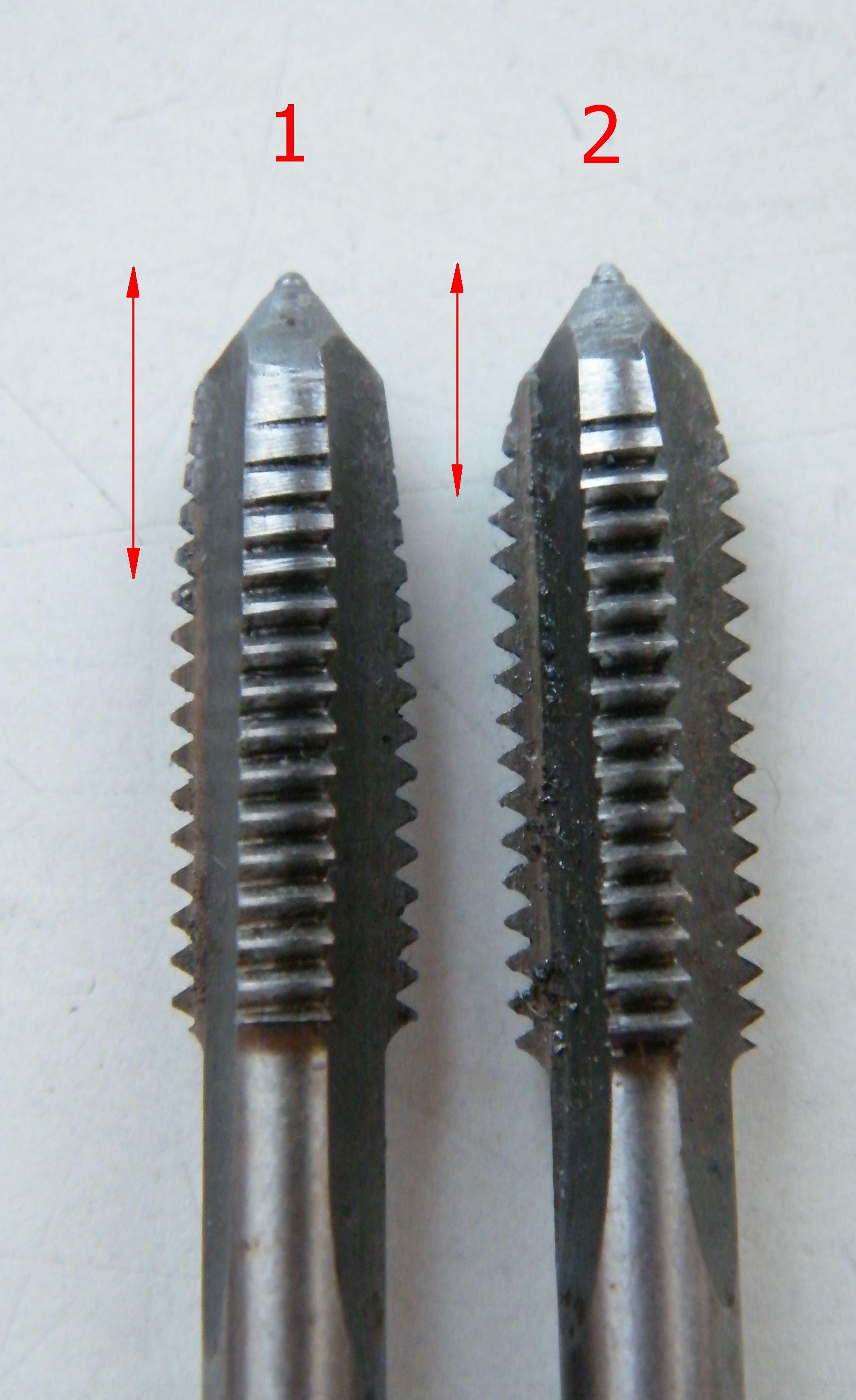 Threading tools